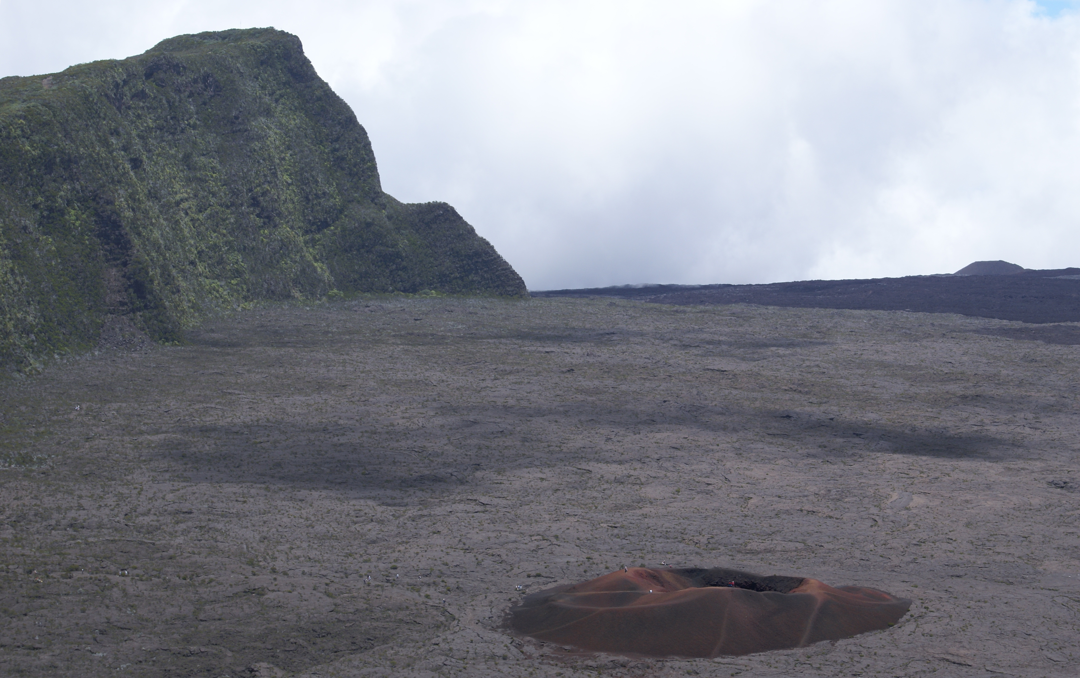 The Formica Leo, a small scorias crater on the Piton de la Fournaise volcano